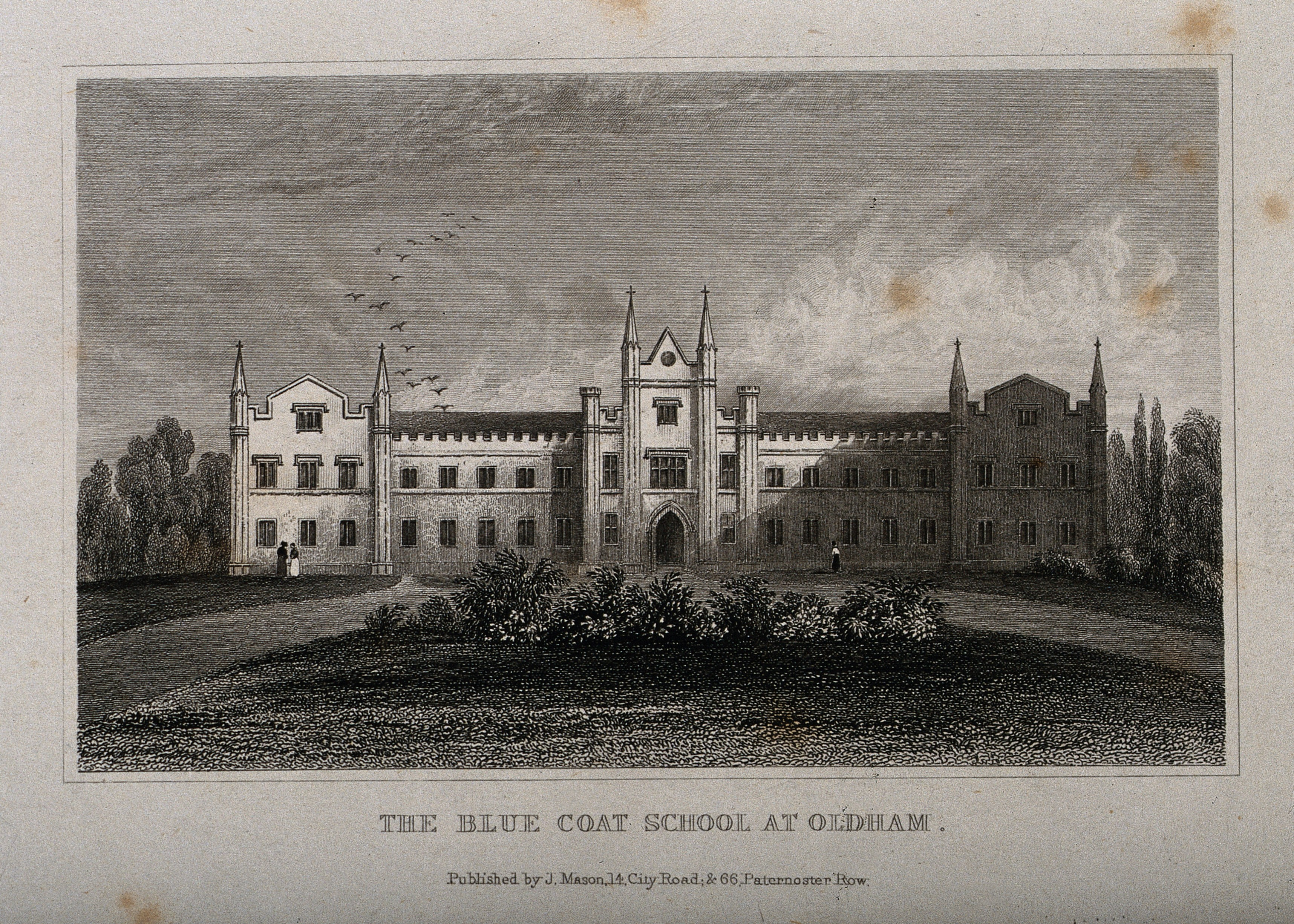 Blue Coat School, Oldham, Lancashire, England. Line engraving. Iconographic Collections